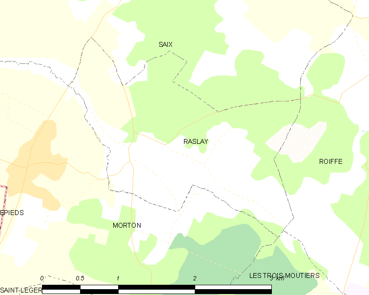 Map of French municipality Raslay